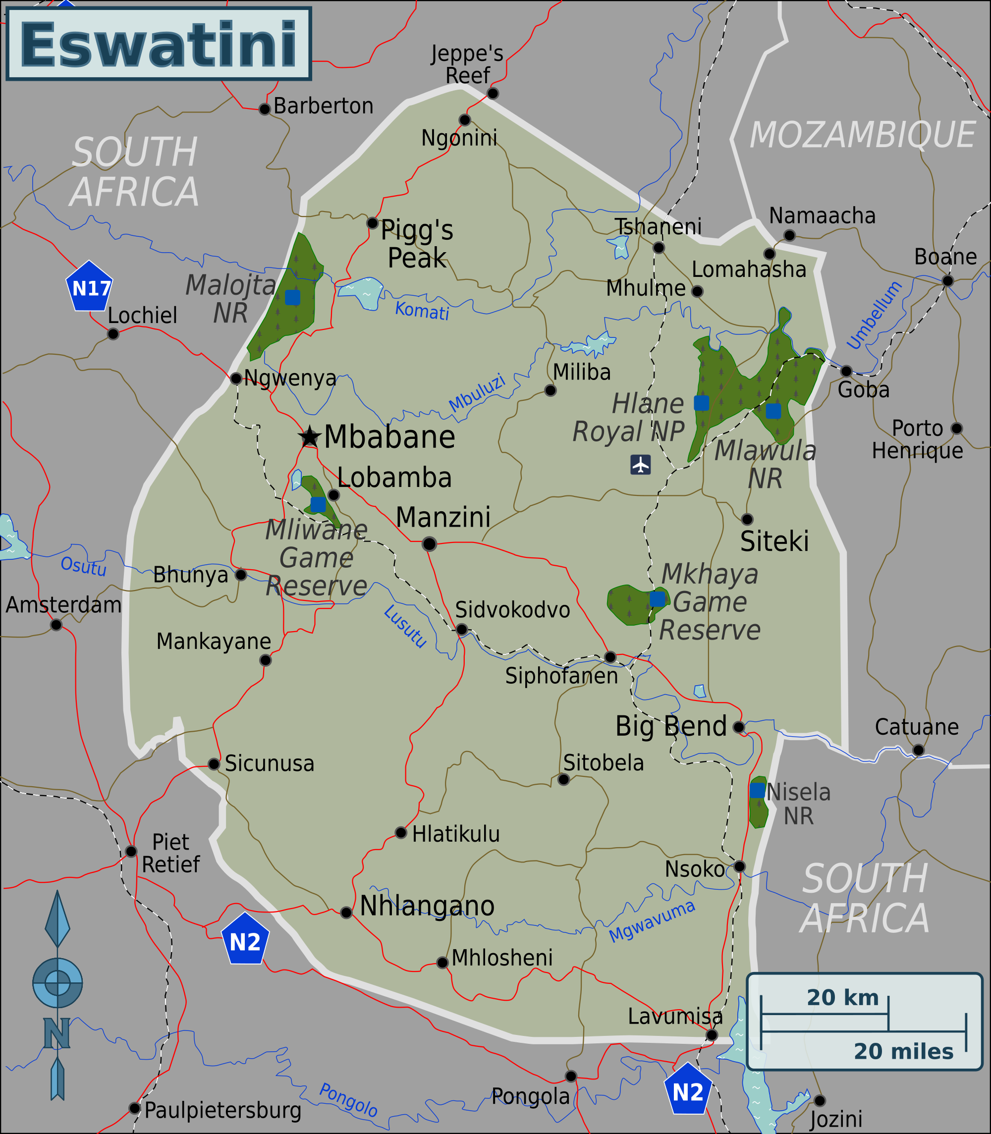 Map of Eswatini with regions colour coded. Map of Eswatini, Eswatini